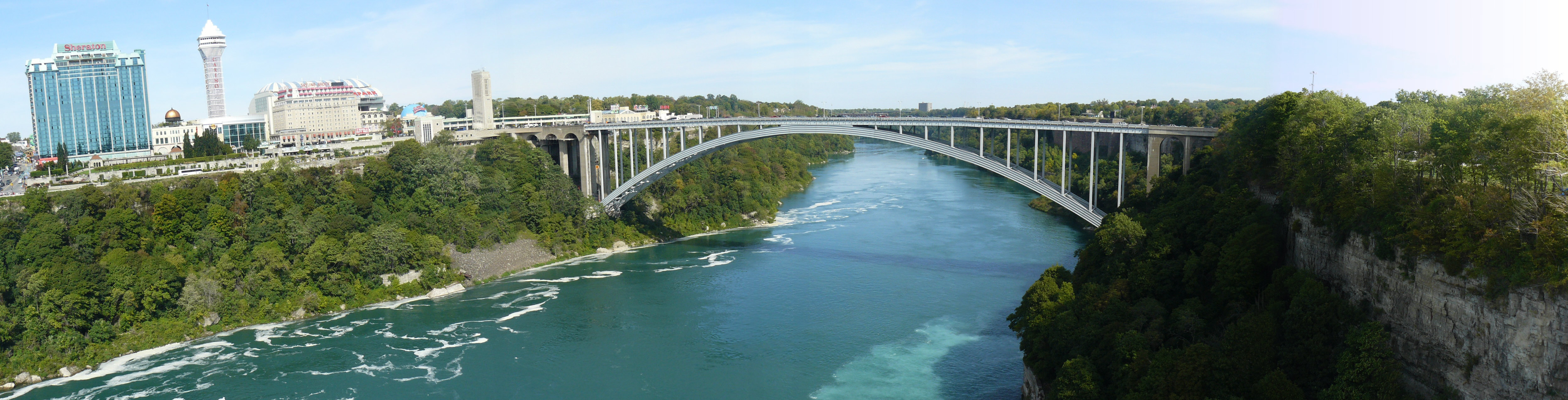 Rainbow Bridge, which connect U.S and Canada near Niagara Falls